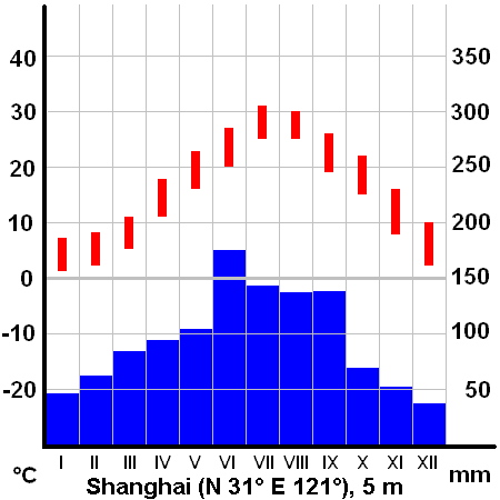 Climate diagram of Shanghai, China max. and min. temperature and total precipitations per month drawn by Miaow Miaow, March 2005